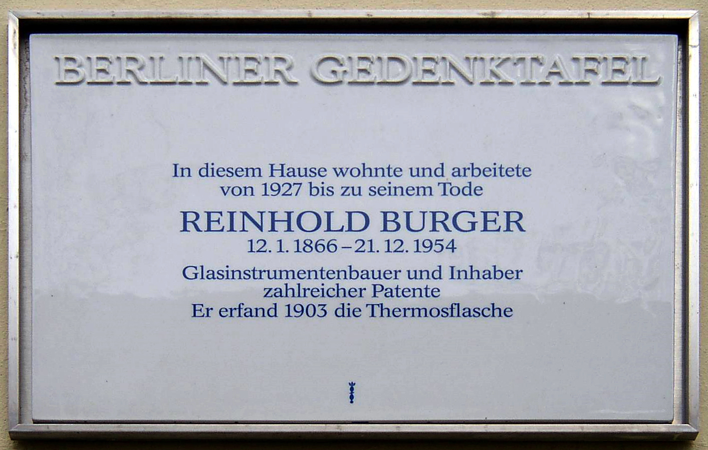 Berlin memorial plaque for Reinhold Burger in Berlin-Pankow, Germany